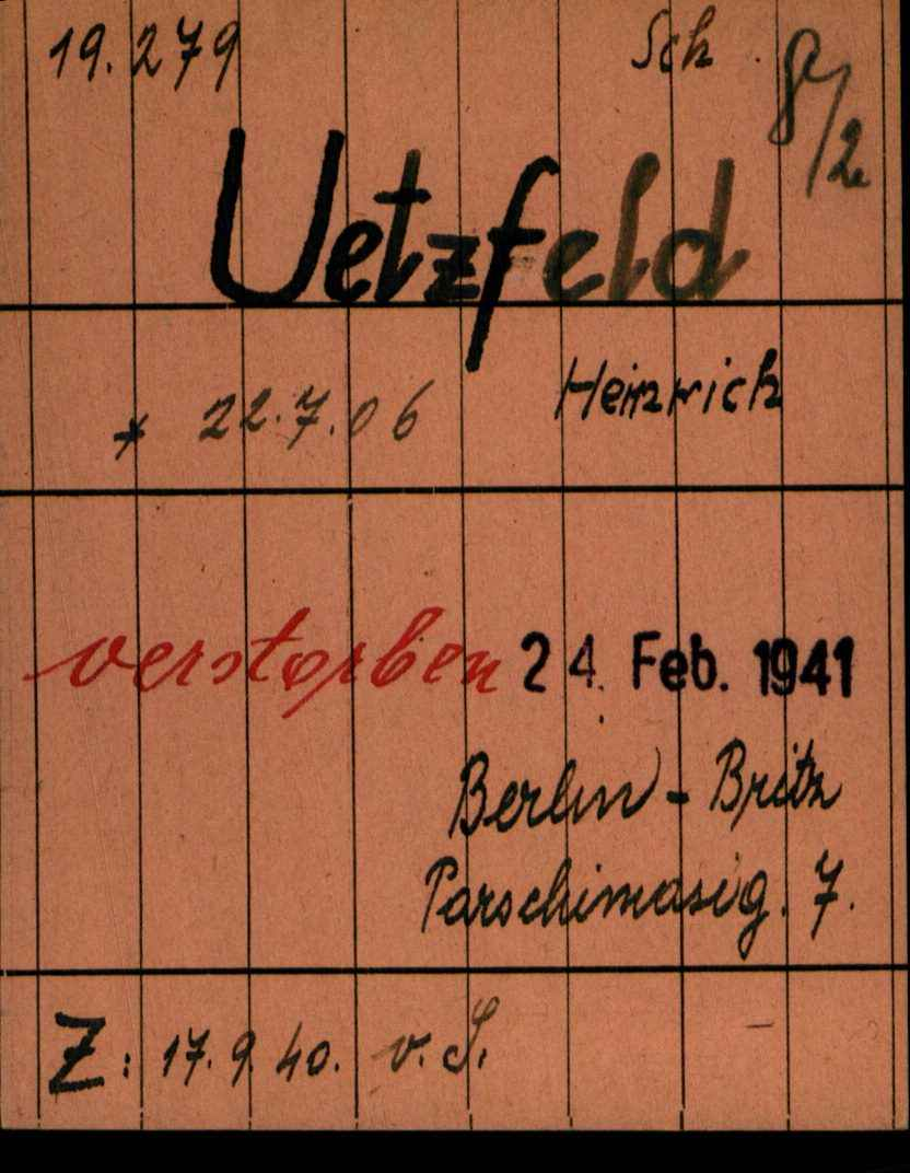 Registration card of Heinrich Uetzfeld as a prisoner at Dachau Nazi Concentration Camp.